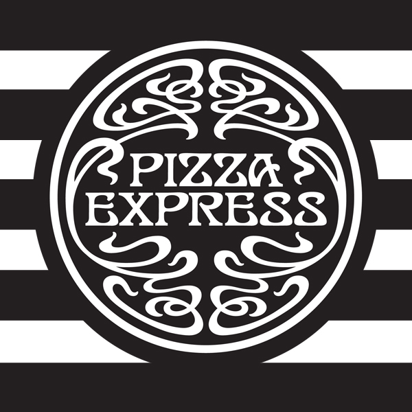 This is the logo for PizzaExpress